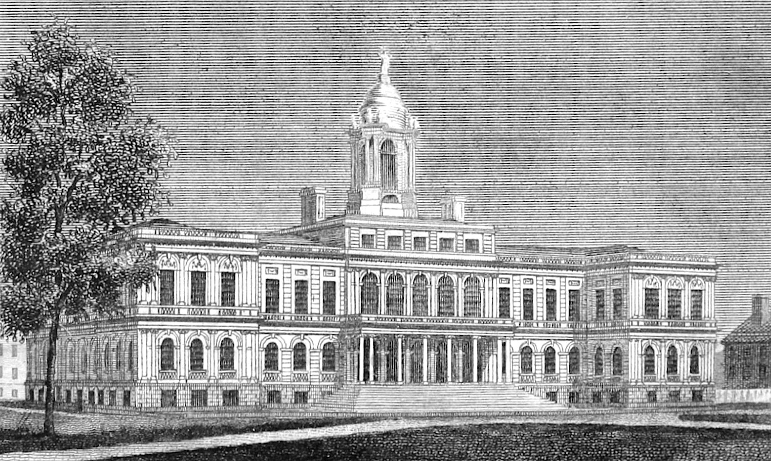 Caption reads: "CITY HALL." Credit line reads: "C. A. Busby delt. W. Hooker Sc." Text (p. 185) reads: "The foundation stone…was laid on 26th Sept. 1803, during the mayoralty of Edward Livingston, Esq.….It was finished in 1812….The City Hall was originally intended for, and is now applied to, the use of the Common Council…and for the judges of the courts of law to hold their sittings…."